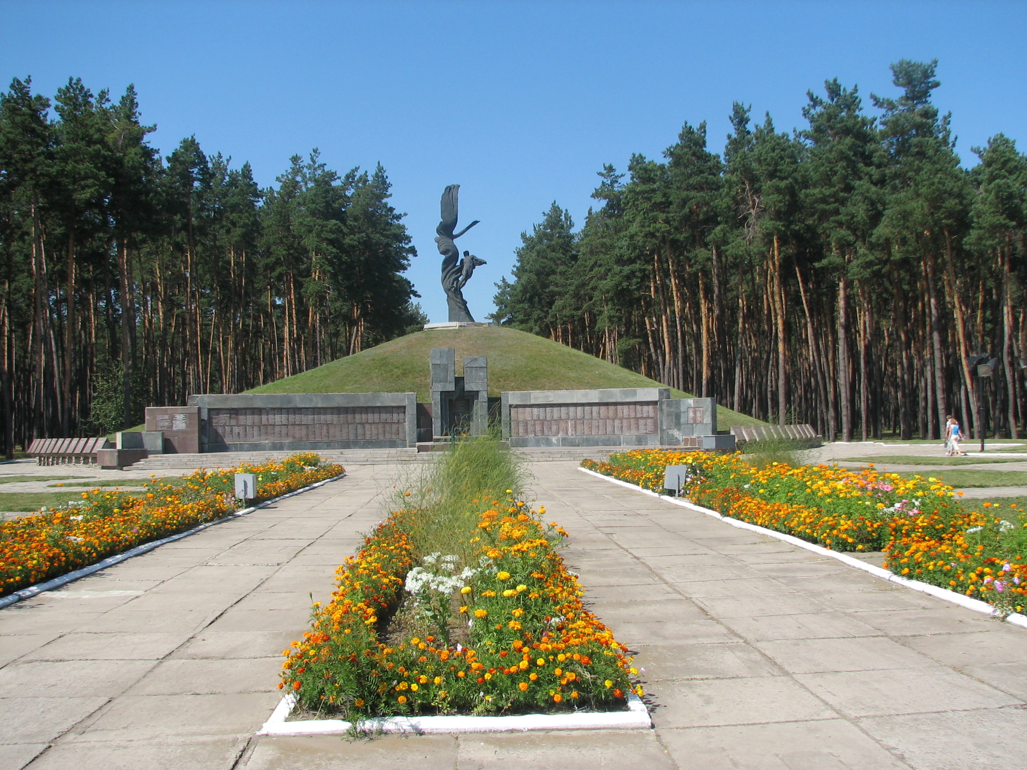 This Memorial dedicated to those who never came back from the Second World War in Lebedyn, Sumy Oblast, Ukraine